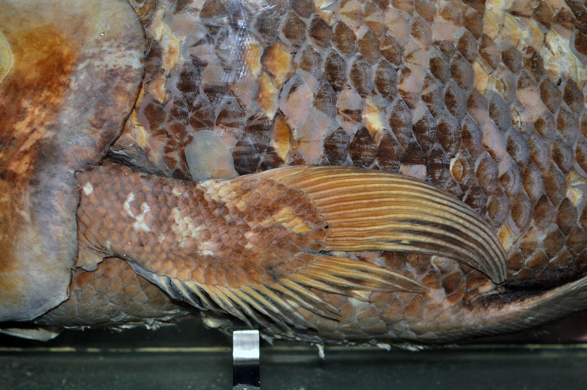 Petcoral fin of a Coelacanth (Latimeria chalumnae) from the Muséum national d'histoire naturelle (Paris, France).